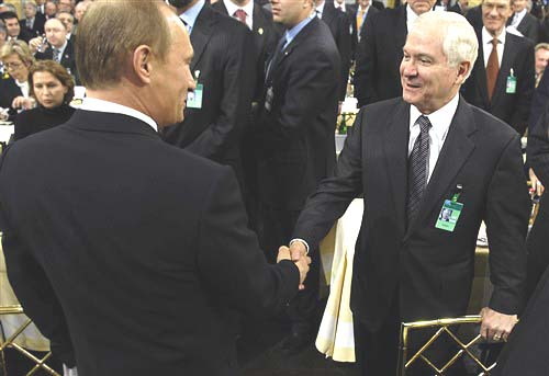 Defense Secretary Robert Gates shakes hands with Russian president Vladimir Putin at the 43rd Munich Conference on Security Policy.